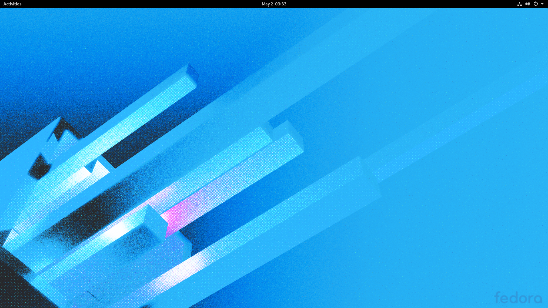 Fedora 32 GNOME Desktop